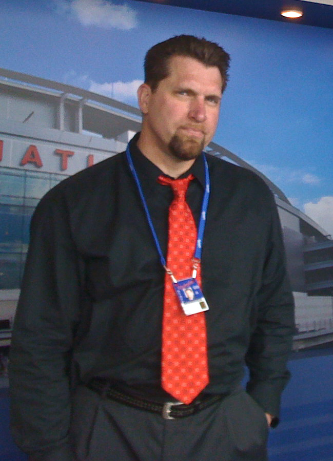 Washington Nationals broadcaster Rob Dibble. This file has been extracted from another file: Rob Dibble and Bob Carpenter.jpg